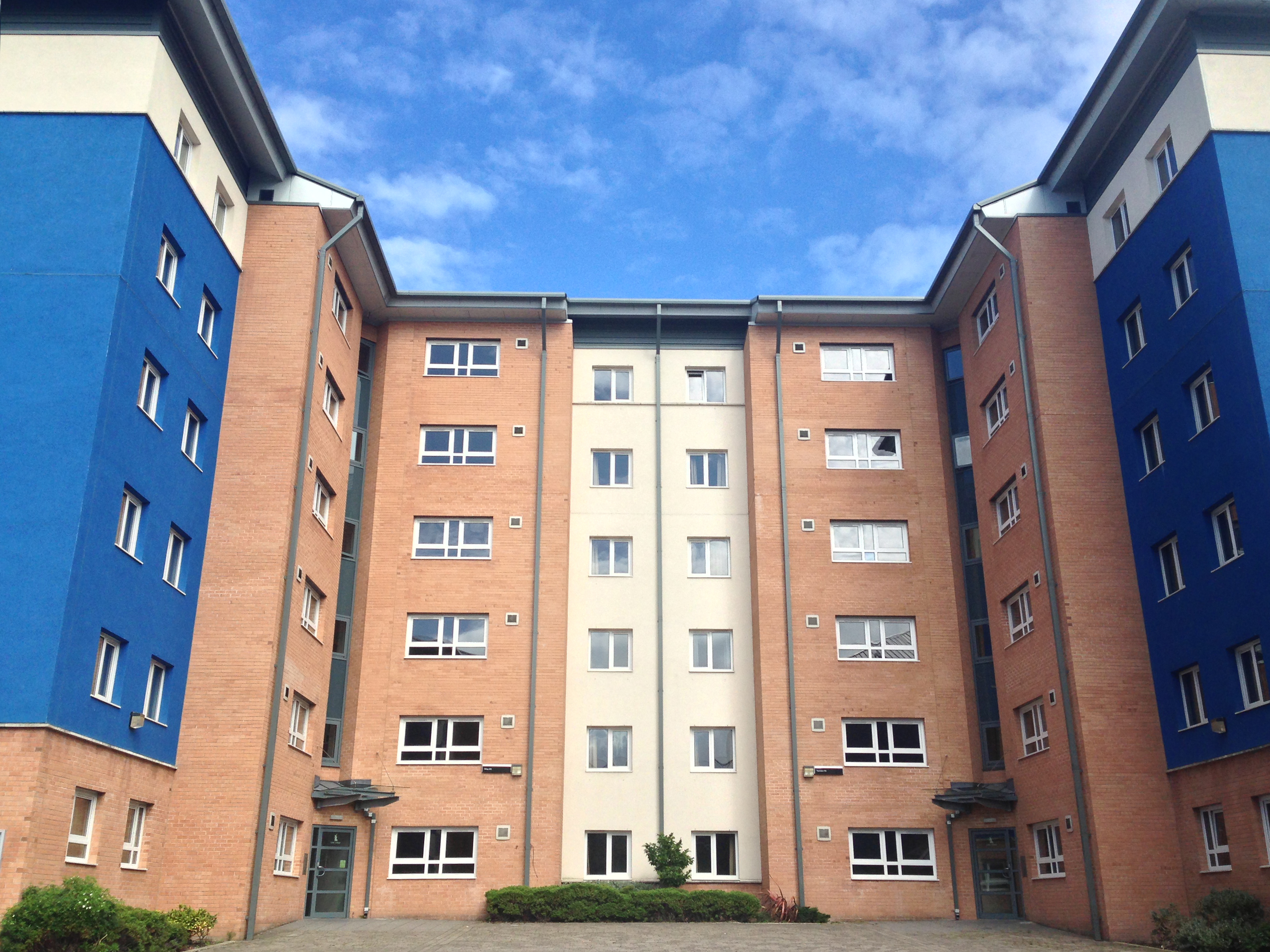 Fylde Accomodation